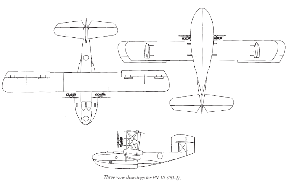 Three view drawings of a U.S. Navy Naval Aircraft Factory PN-12. The Naval Aircraft Factory PN was a flying boat developed by the U.S. Naval Aircraft Factory in the 1920s. The PN-12 was also produced under licence by the Glenn L. Martin company (designation PM-1/PM-2), the Douglas Aircraft Company (PD-1), and Keystone Aircraft (PK-1).